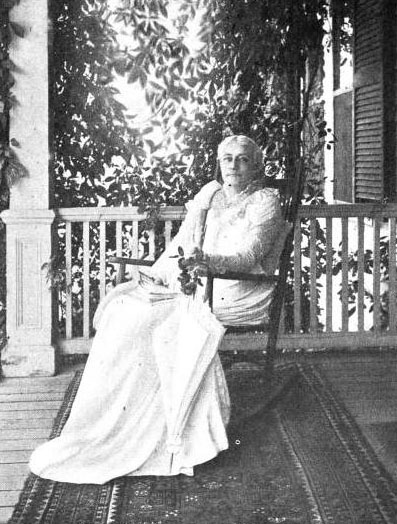 Photograph of American author Elizabeth Stuart Phelps [Ward] (1844-1911). From the book In After Days: Thoughts on the Future Life (New York: Harper and Brothers, 1910). Cropped version.